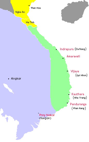 The regions of the Kingdom of Champa